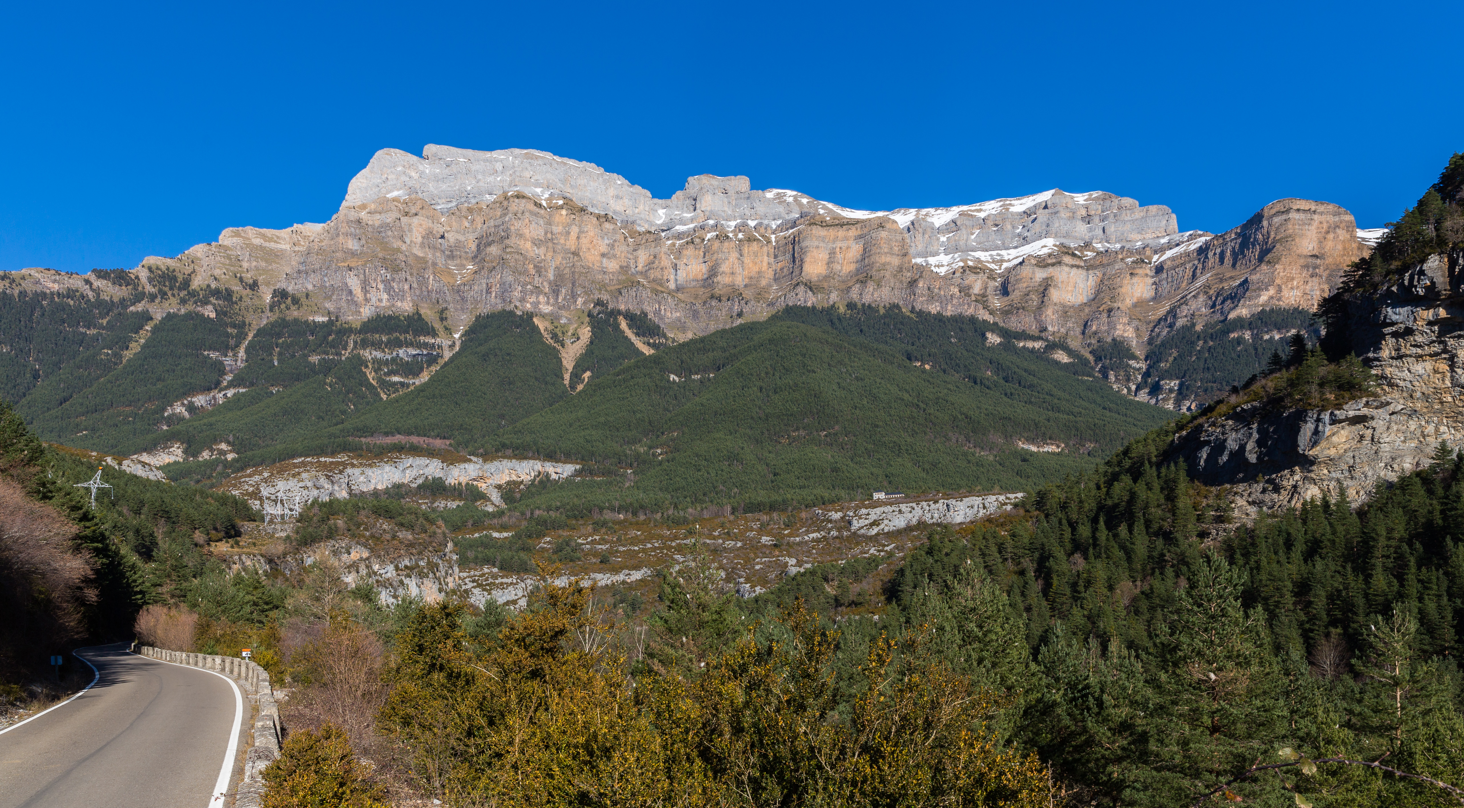 Ordesa y Monte Perdido National Park, Huesca, Spain